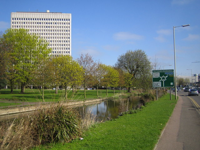 River Gade and the Kodak building, Hemel Hempstead